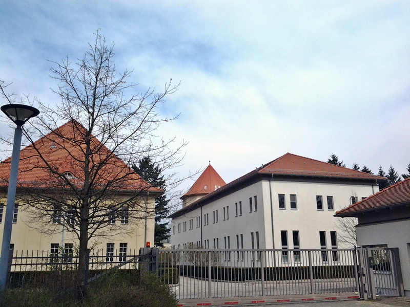 Waterworks Wuhlheide